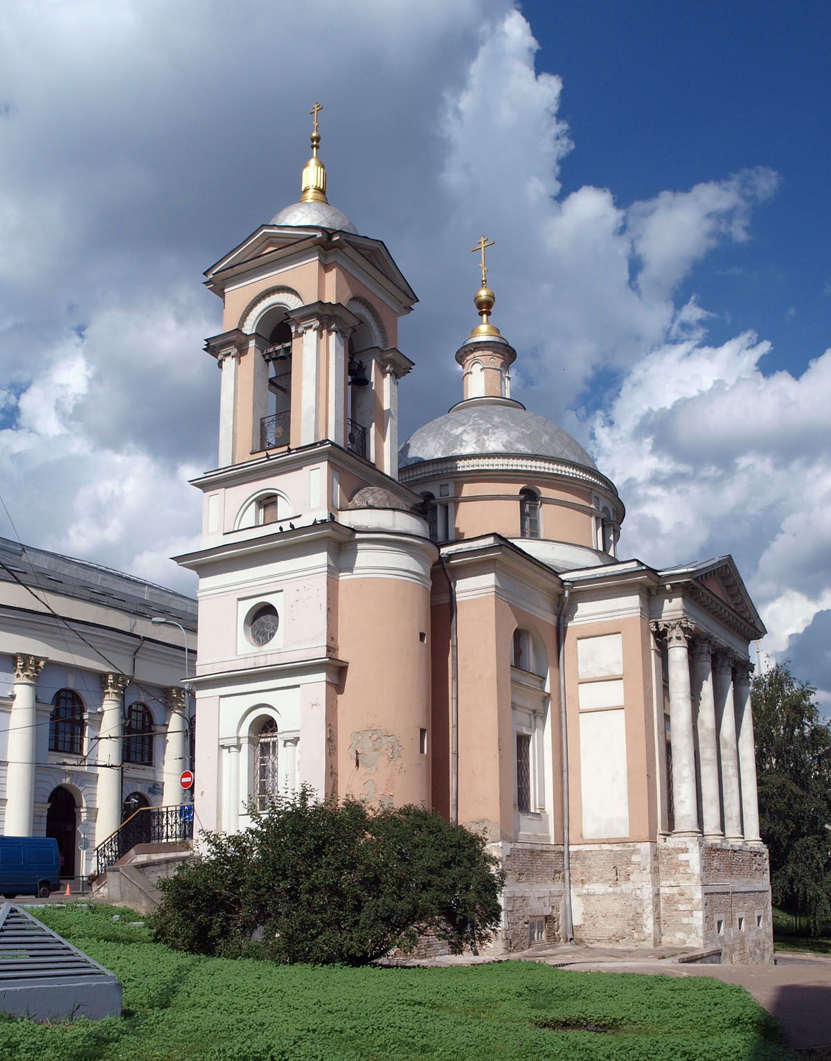 Church of St. Barbara, Moscow (2, Varvarka Street), 1796-1804